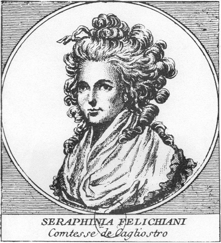 Portrait of Lorenza Feliciani (1754-1794), wife of Cagliostro